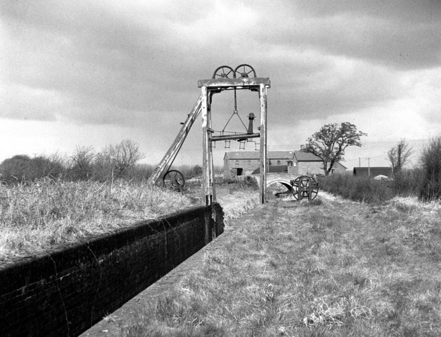 Remains of guillotine gate, Wappenshall Lock, Shropshire The Trench Branch of the Shrewsbury and Newport Canal linked Wappenshall Junction with the foot of the Trench Inclined Plane. This branch, which was built some time before the Newport line, had unusual locks which measured 80ft long by only 6ft 6ins wide, to accommodate four tub boats (20ft x 6ft 4 ins) at a time. The bottom gates were of the guillotine type and the remains of one set of the gear for these gates is seen here. This lock was the last one before Wappenshall Junction was reached. Photographed in April 1964.